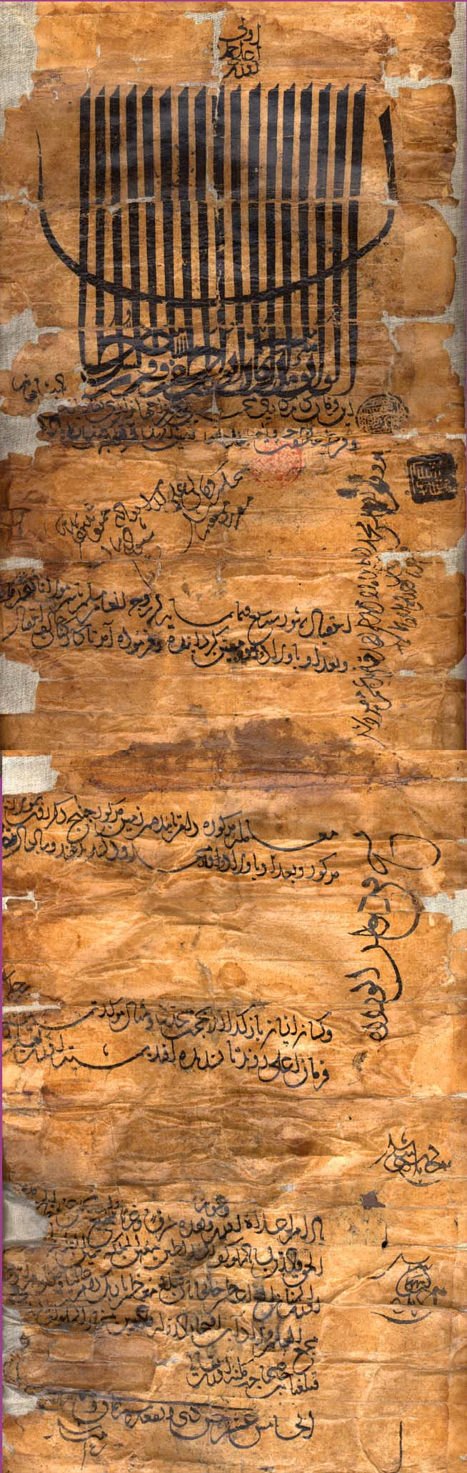 Farman Of Feroz Shah Bahmani ; Dated: 14 -05 -1406 A.D Granting Land As Inam To Mohammed Qazi